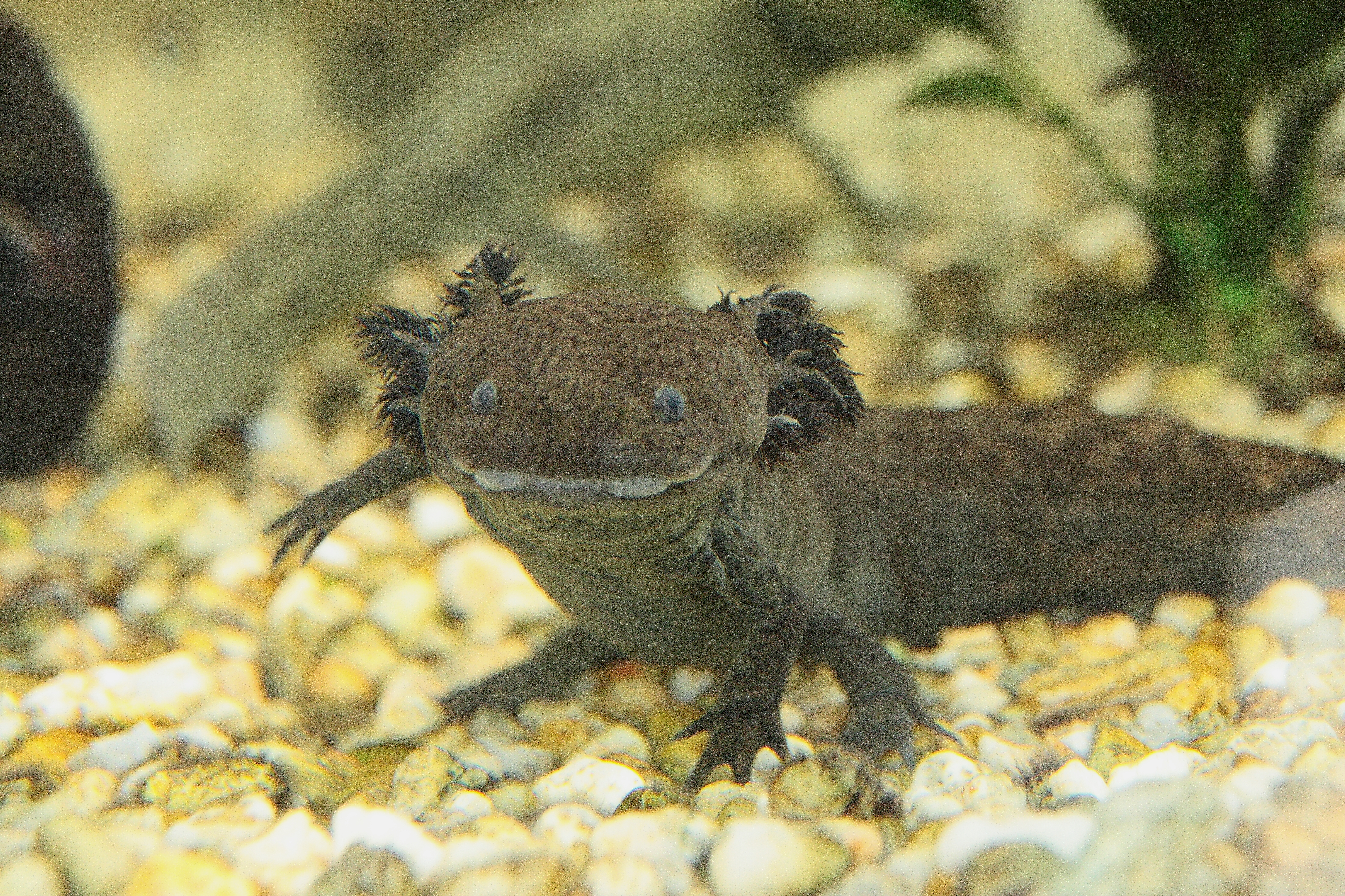 An axolotl (Ambystoma mexicanum)